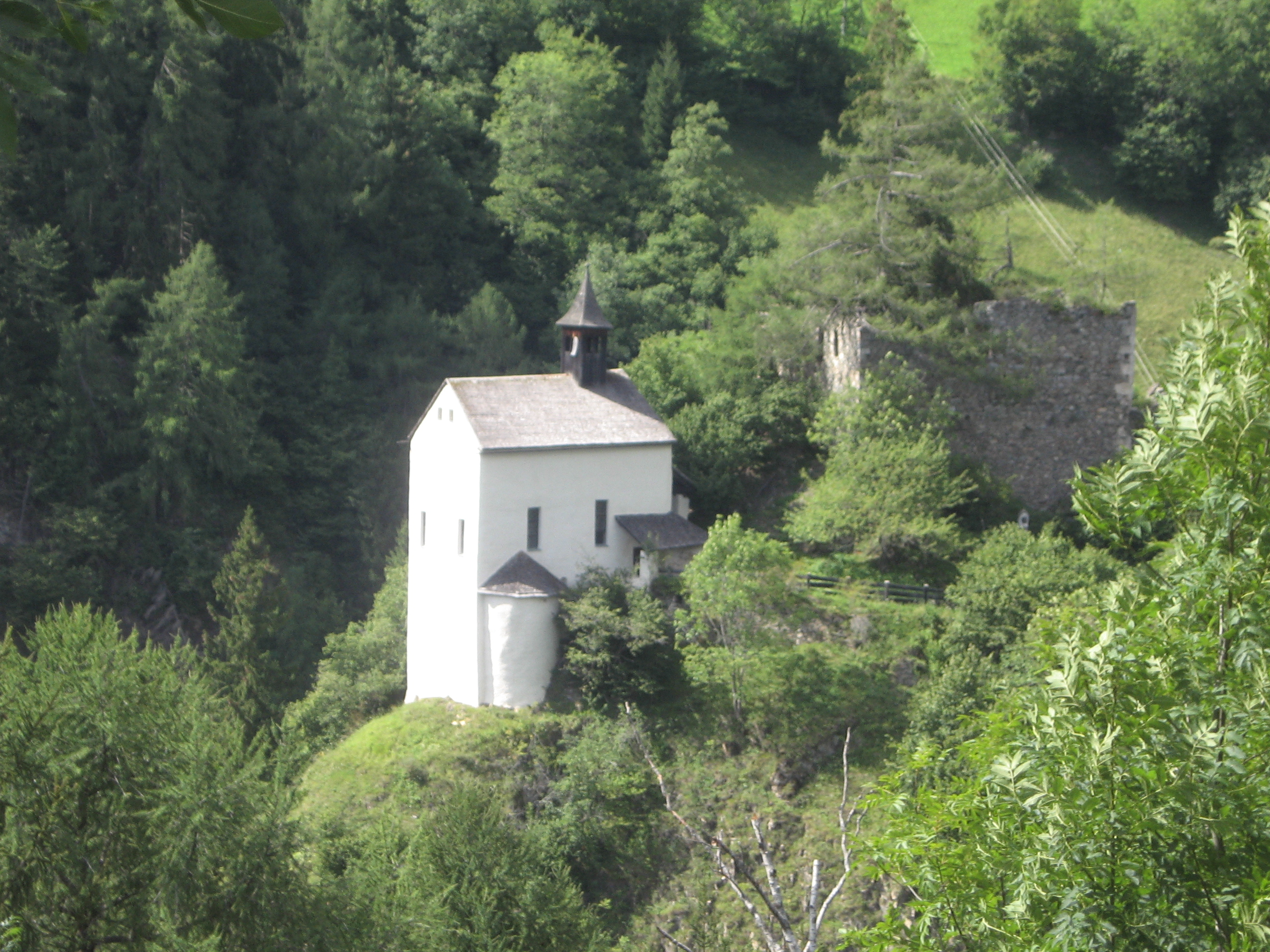 Cultural heritage monuments in Obervellach.